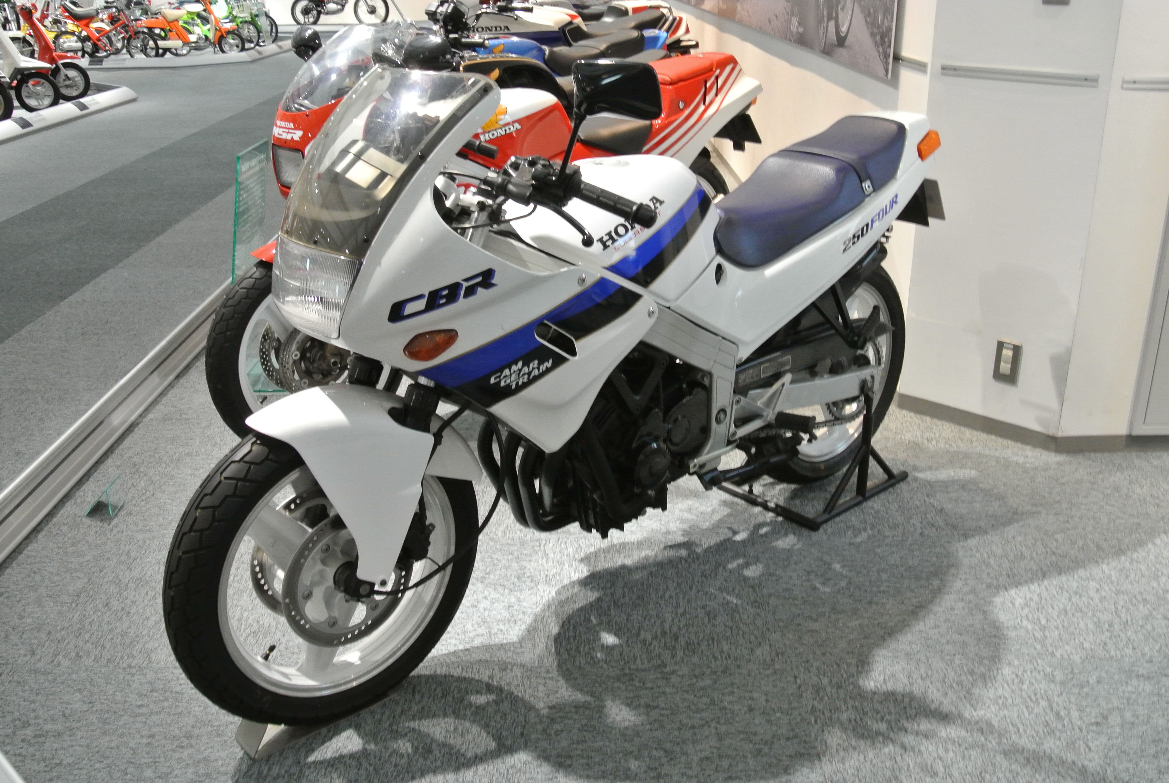 1986 Honda CBR250 Four in the Honda Collection Hall.